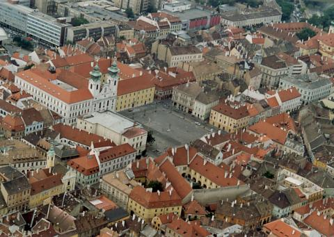 Győr, Hungary, aerial photography